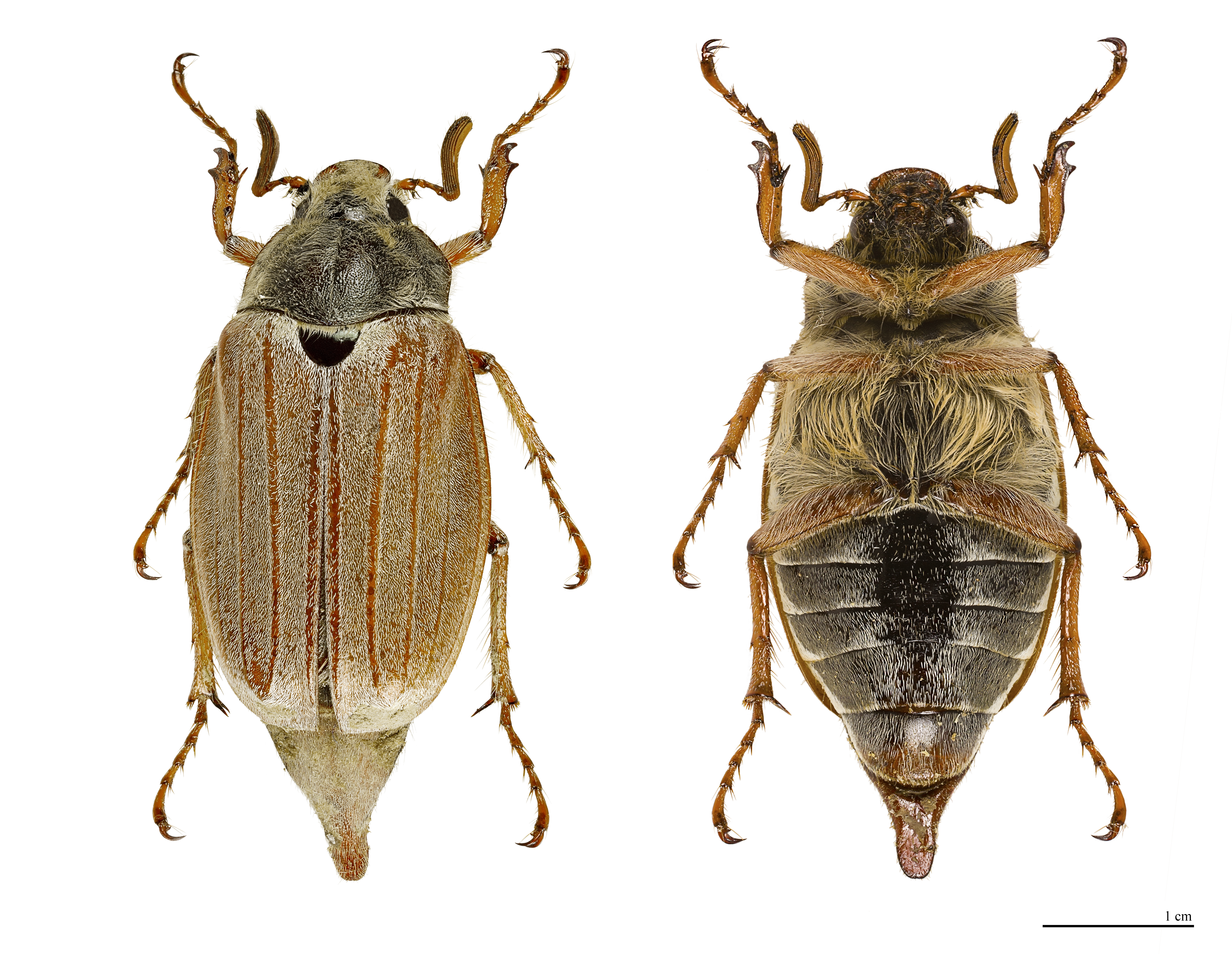 Common Cockchafer - Male - Two views of same specimen Locality: Carbonnel, Rieux-de-Pelleport, Ariège, France